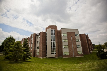 Mackenzie King Village Breezeway view